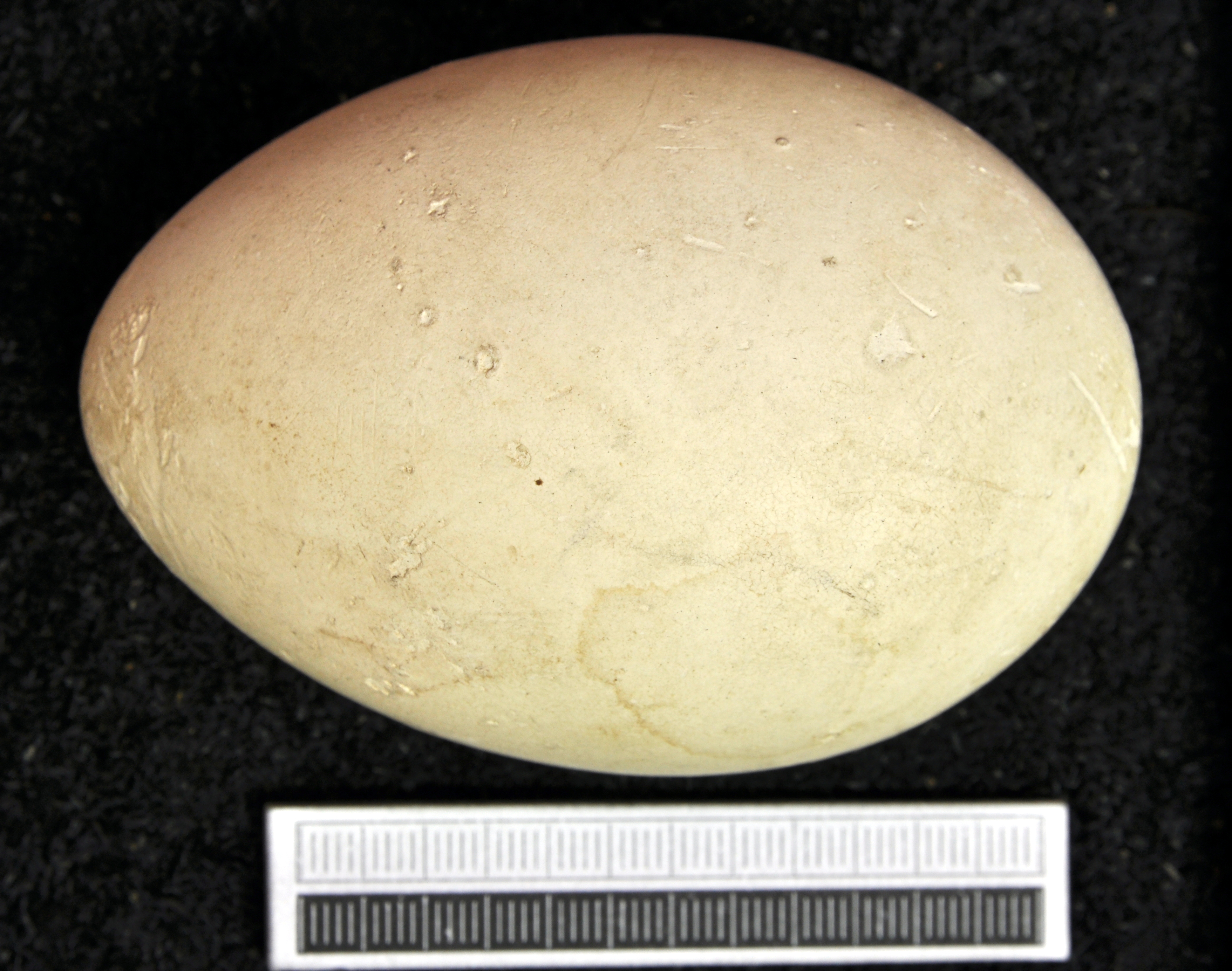 Great white pelican Pelecanus onocrotalus , egg, Coll. Museum Wiesbaden